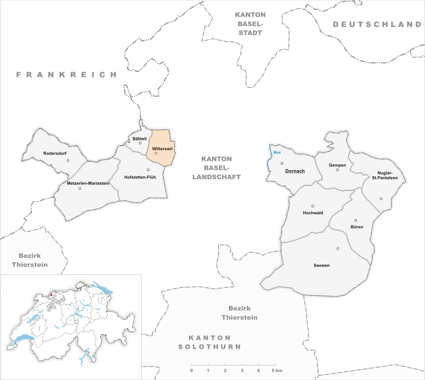 Municipality Witterswil